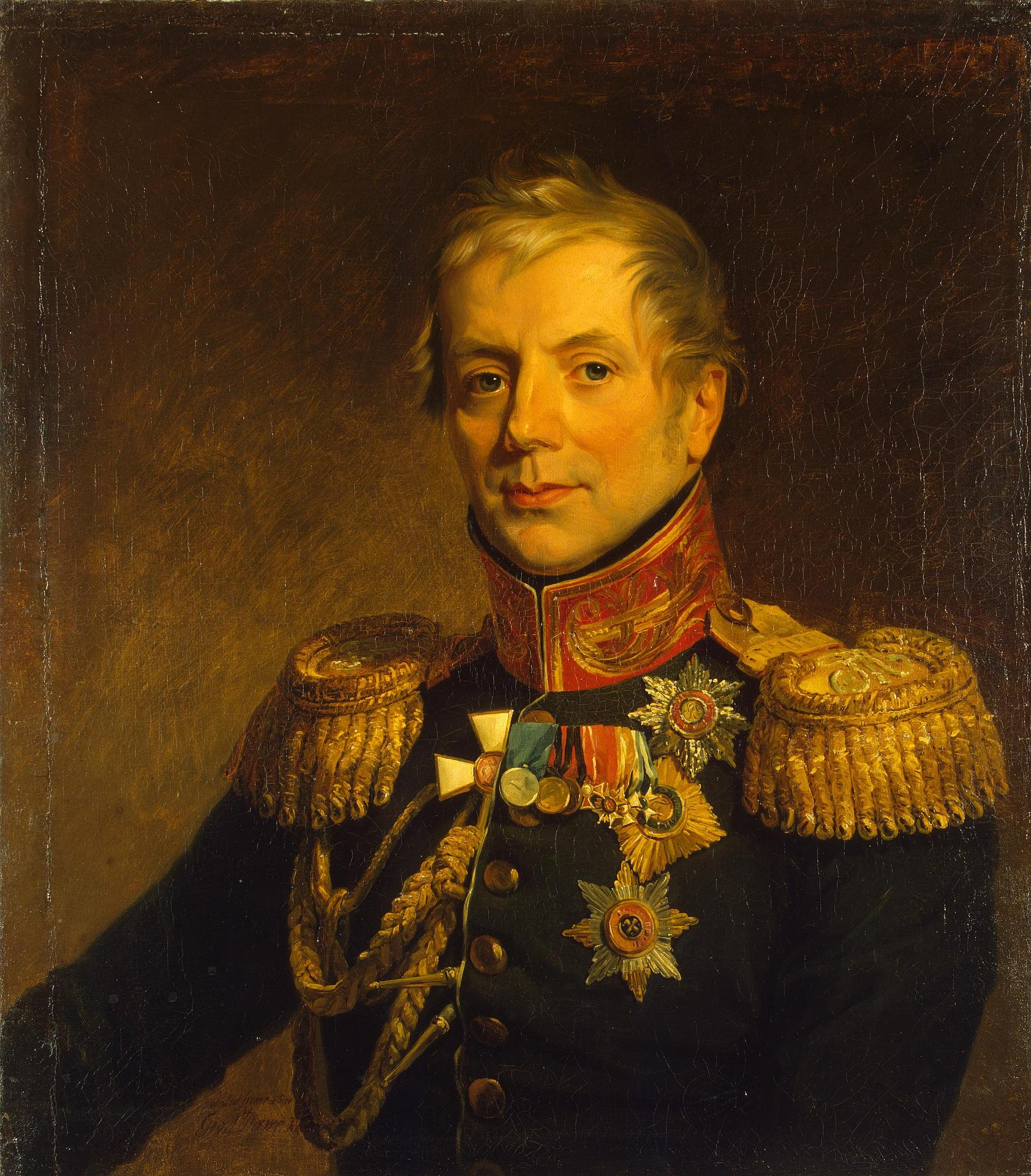 Portrait of Pyotr P. Konovnitsyn (1764-1822), replica of the 1821 portrait by Orest Kiprensky (After the engraving by F. after the drawing by Louis de Saint Aubin (?); after the portrait of Pyotr P. Konovnitsyn by Orest Kiprensky (?))